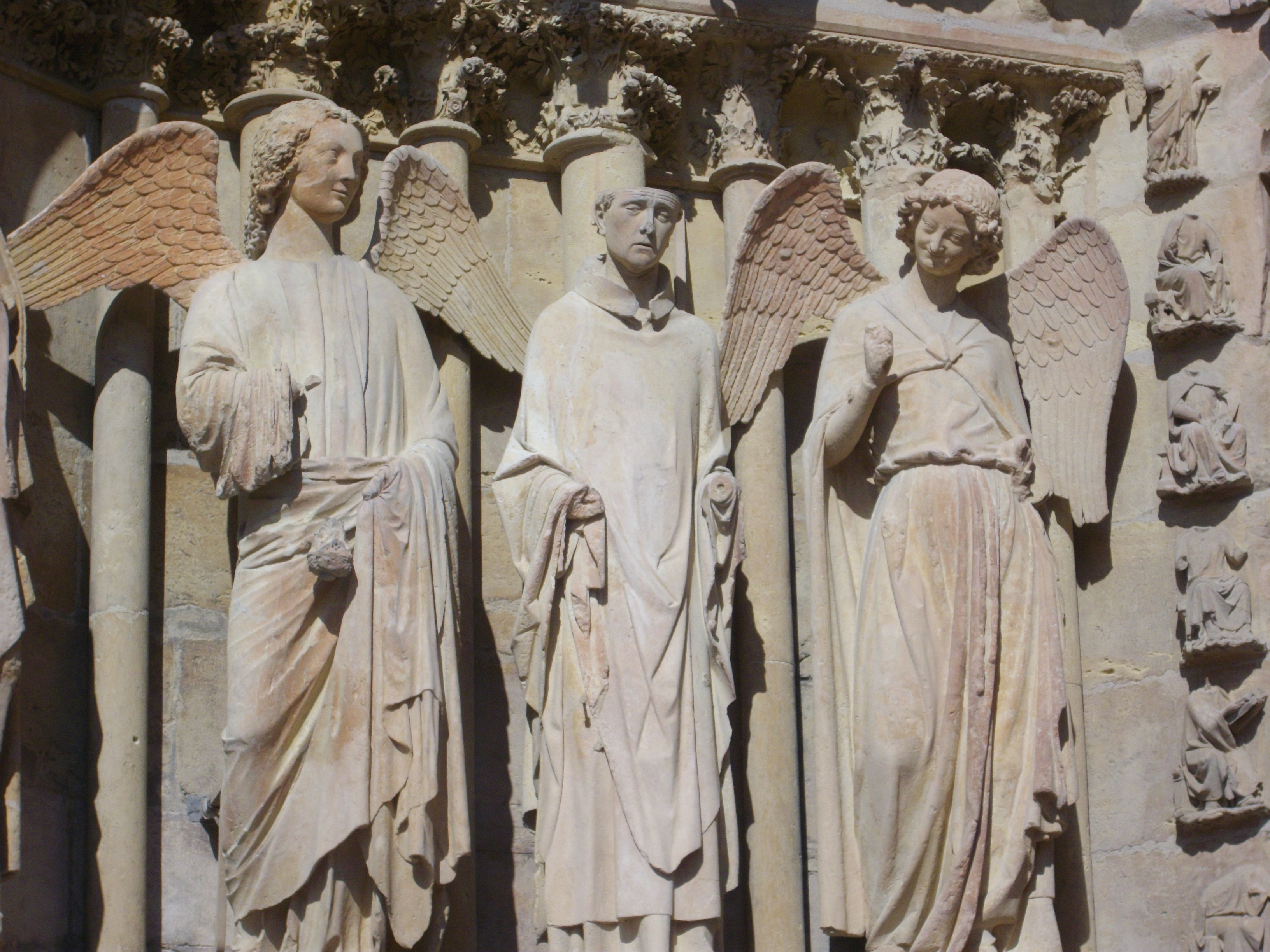 Our Lady cathedral of Reims (Marne, France), northern portal of the western facade .